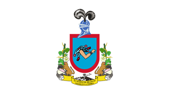 Flag of the State of Colima, Mexico.